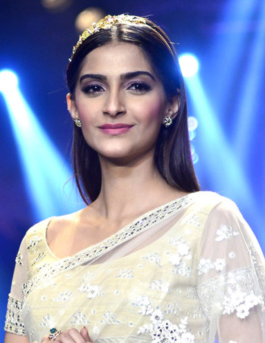 Sonam Kapoor walks the ramp at IIJW 2014 Finale